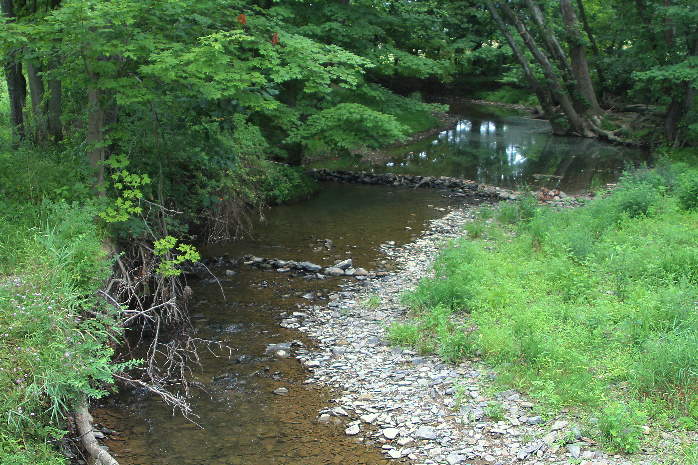 Mahoning Creek downstream of Kase Run in Montour County, Pennsylvania